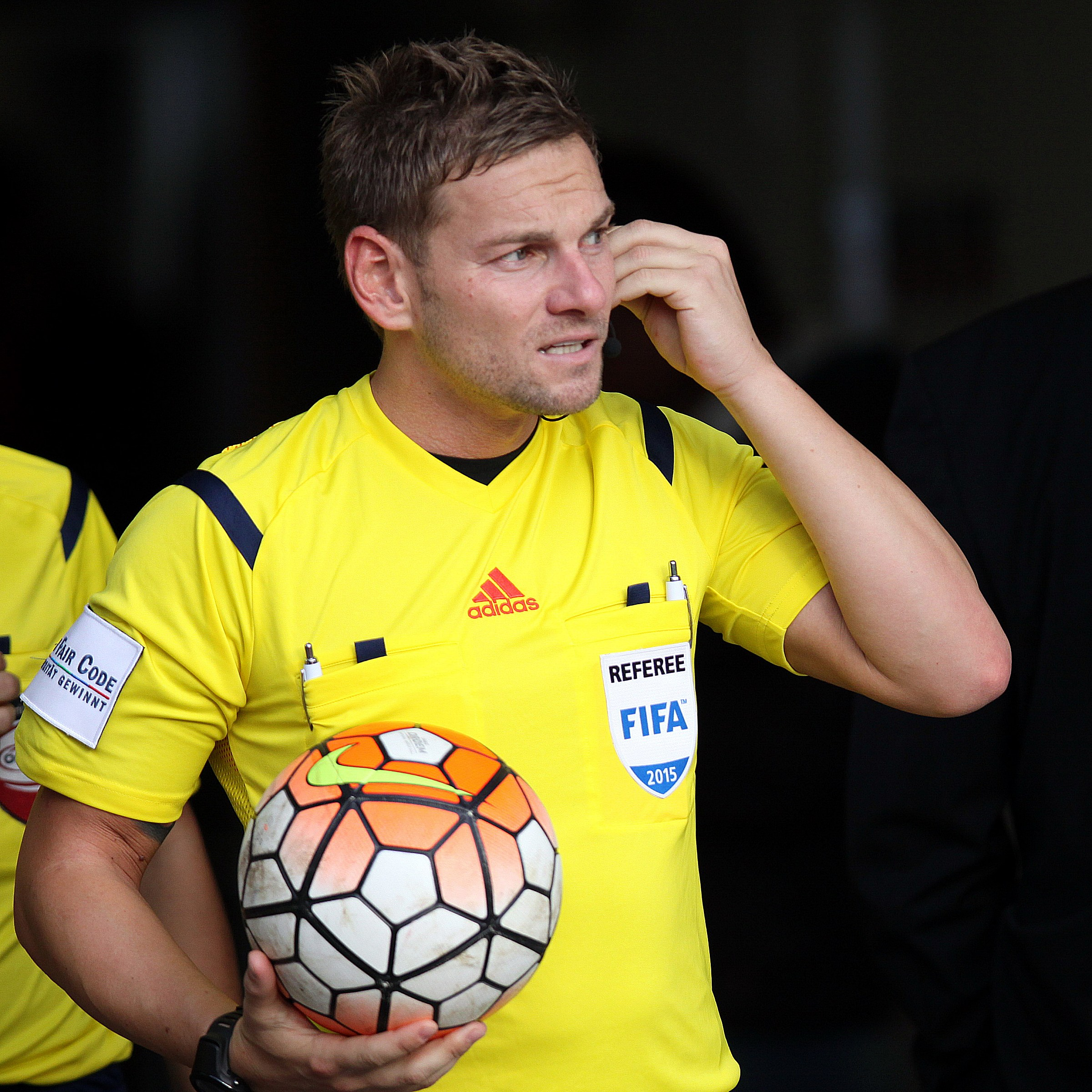 Match of the Austrian Football Bundesliga – FC Admira Wacker Mödling (red shirts) vs. SK Sturm Graz (white shirts) 0-1 (0-0) on 2015-09-27 in Bundesstadion Sudstadt – The photo shows refree Manuel Schüttengruber